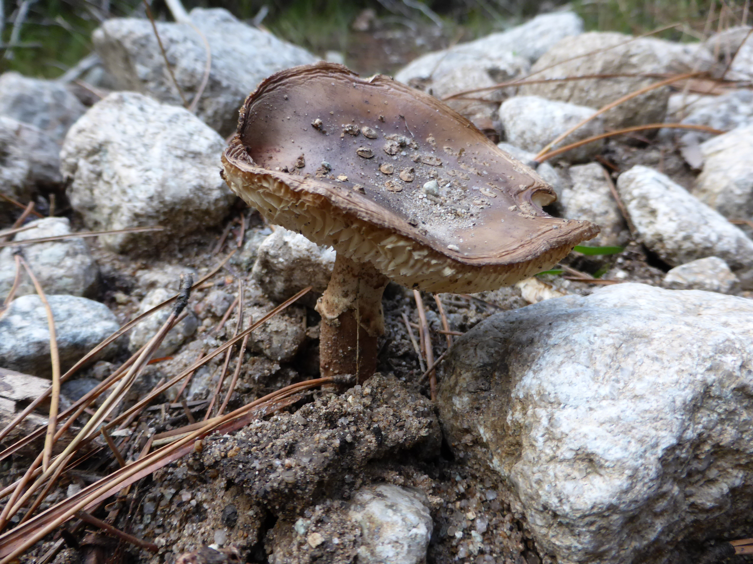 GR 20 between refuge Petra Piana and refuge de l'Onda